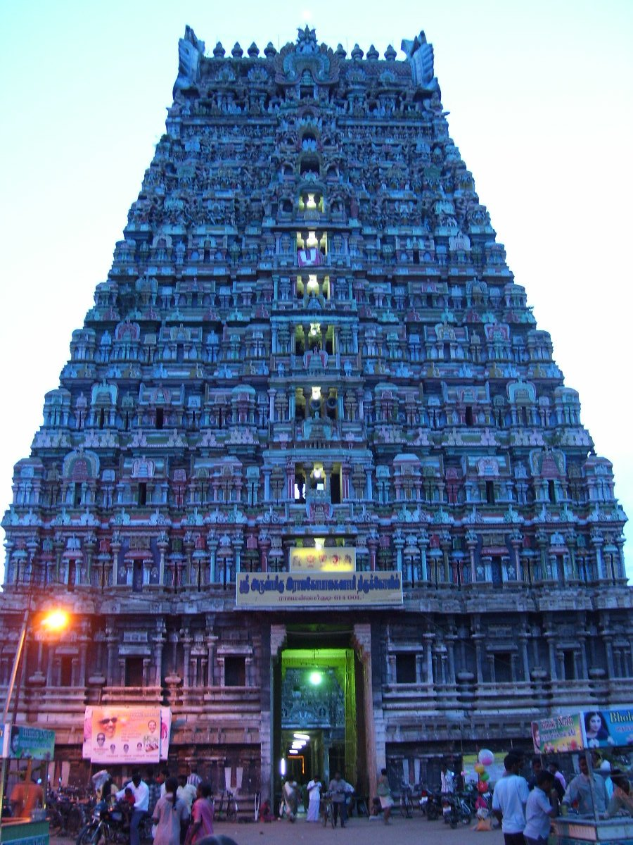 Raja Gopala Swamy Temple